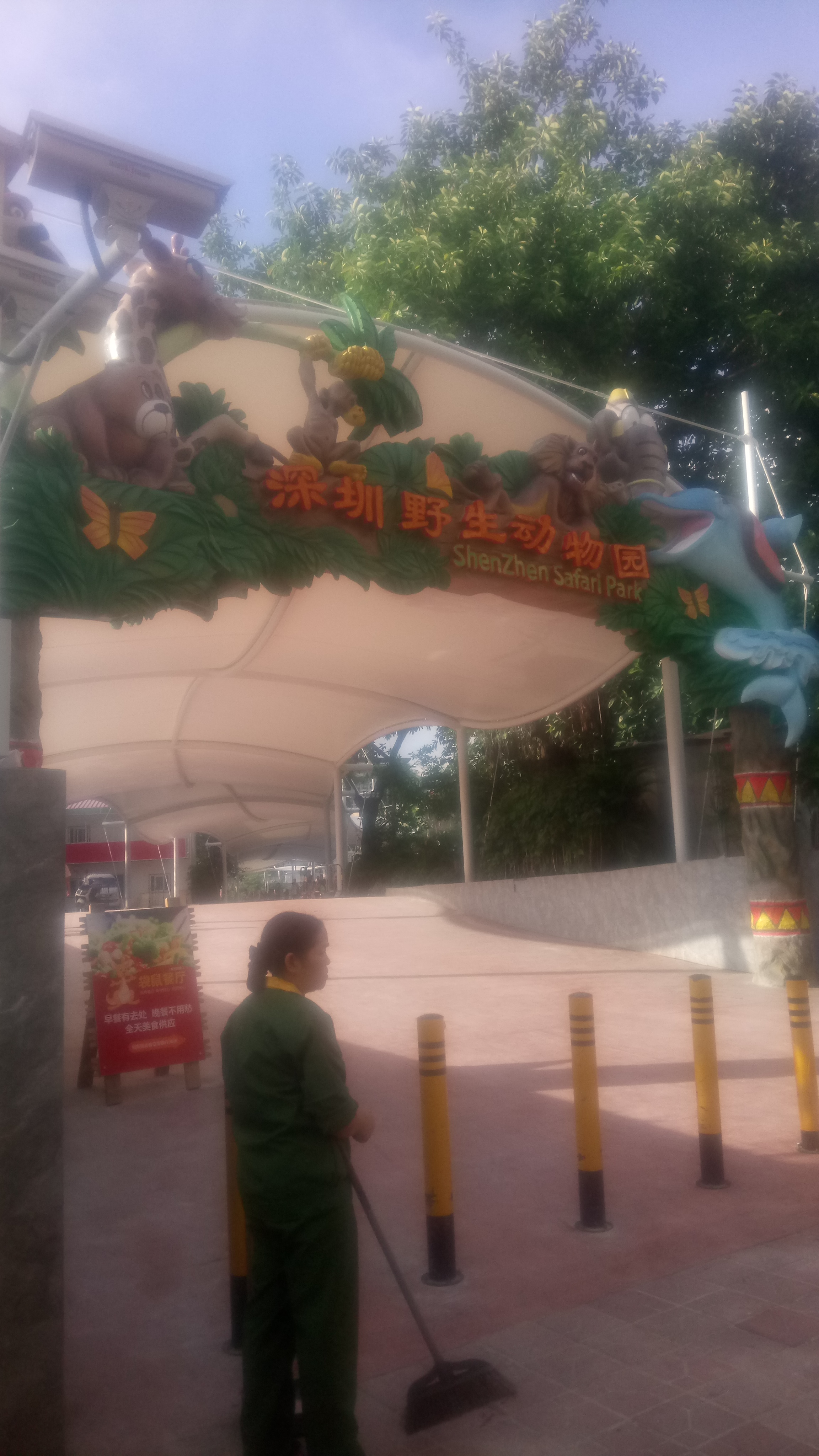 Shenzhen Safari Park